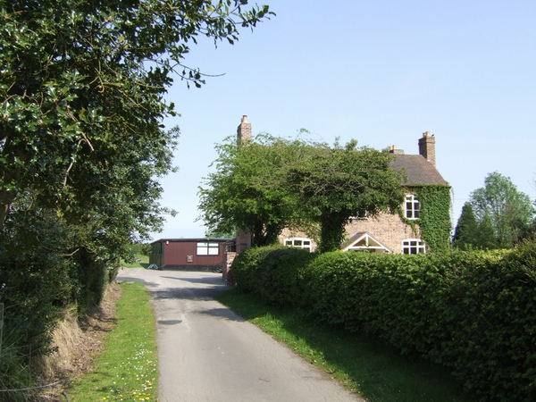 Village School The small school serves a scattered local population.